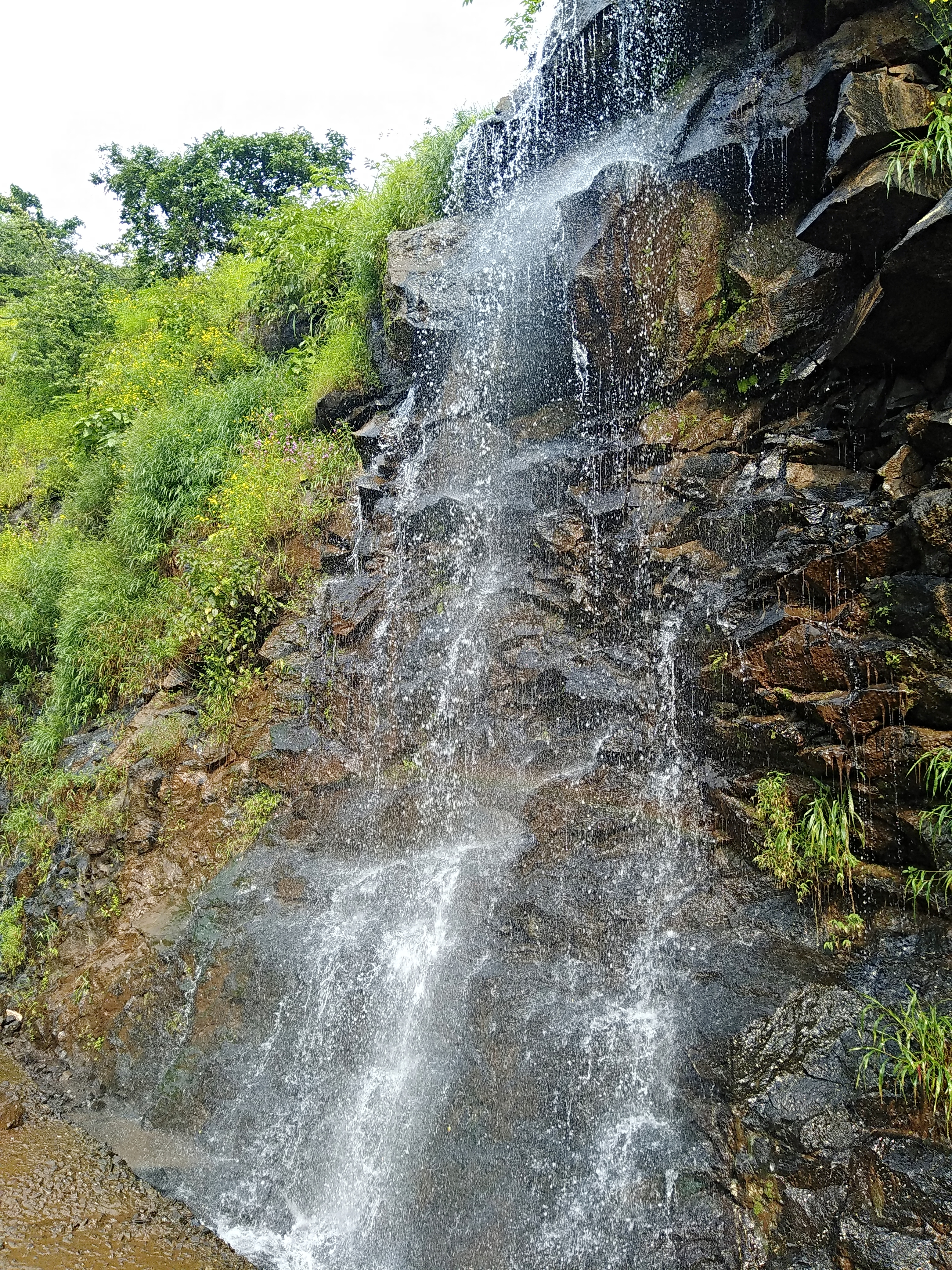 Waterfall at Tamhini Ghat (pune)